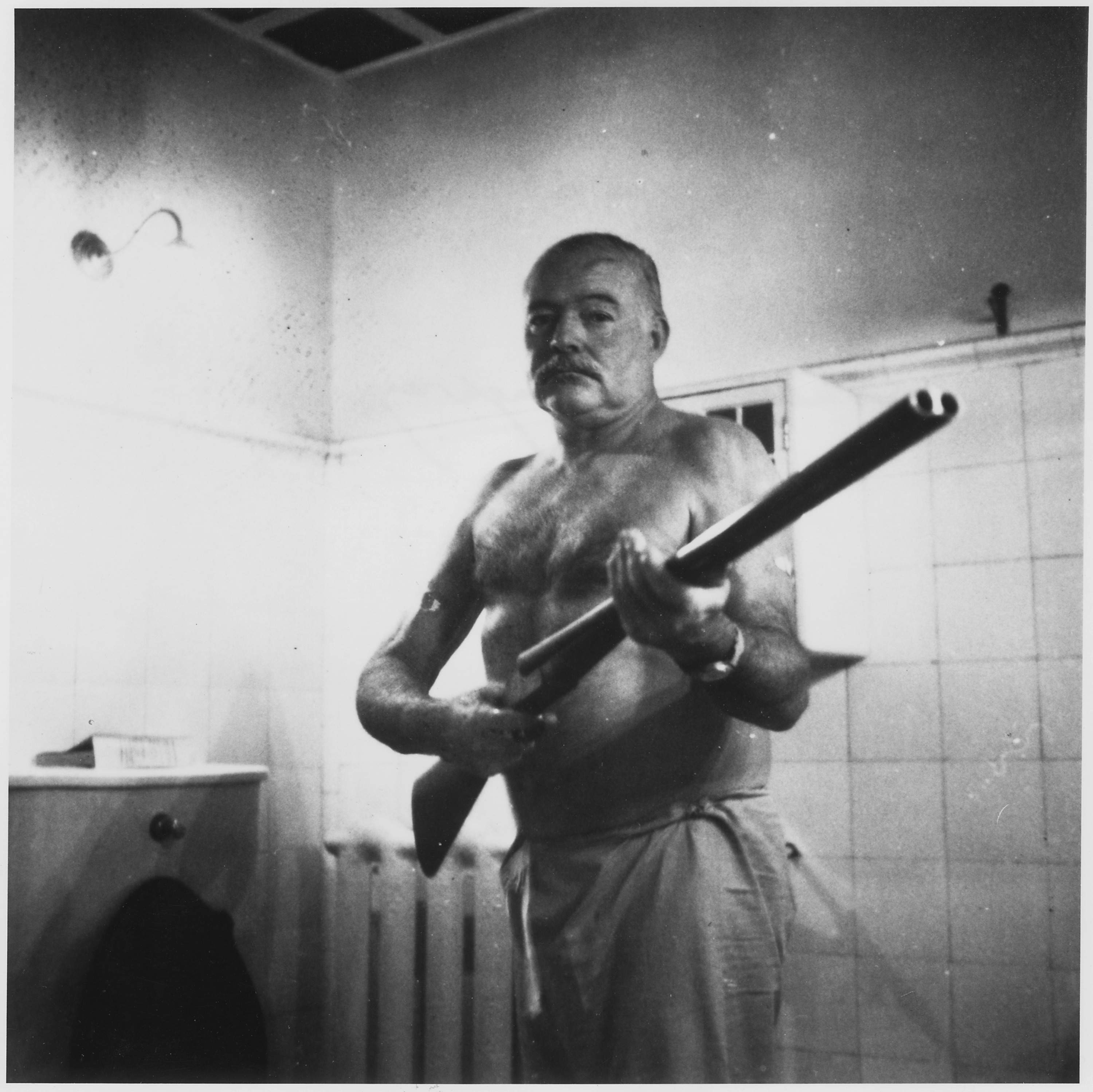 Scope and content: Photograph of Ernest Hemingway holding a shotgun in the Finca Vigia, his home in Cuba.